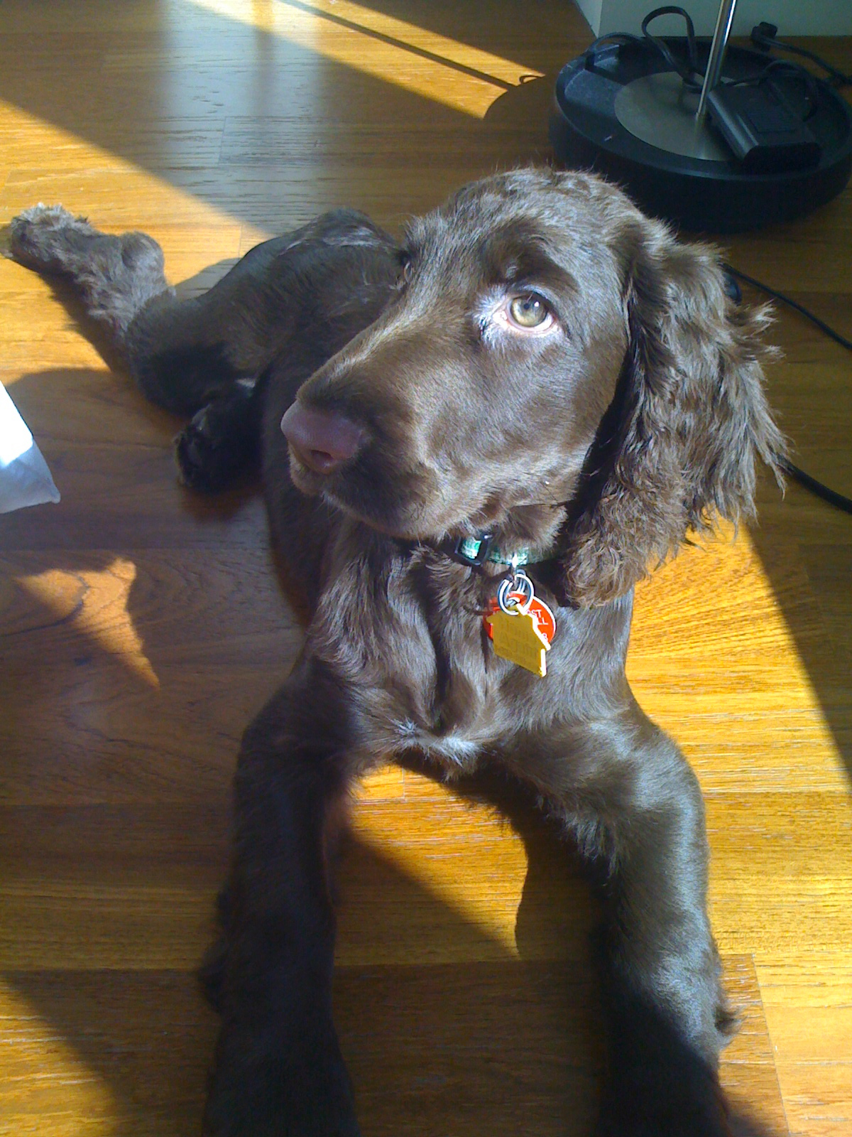 Field Spaniel In Liver Color